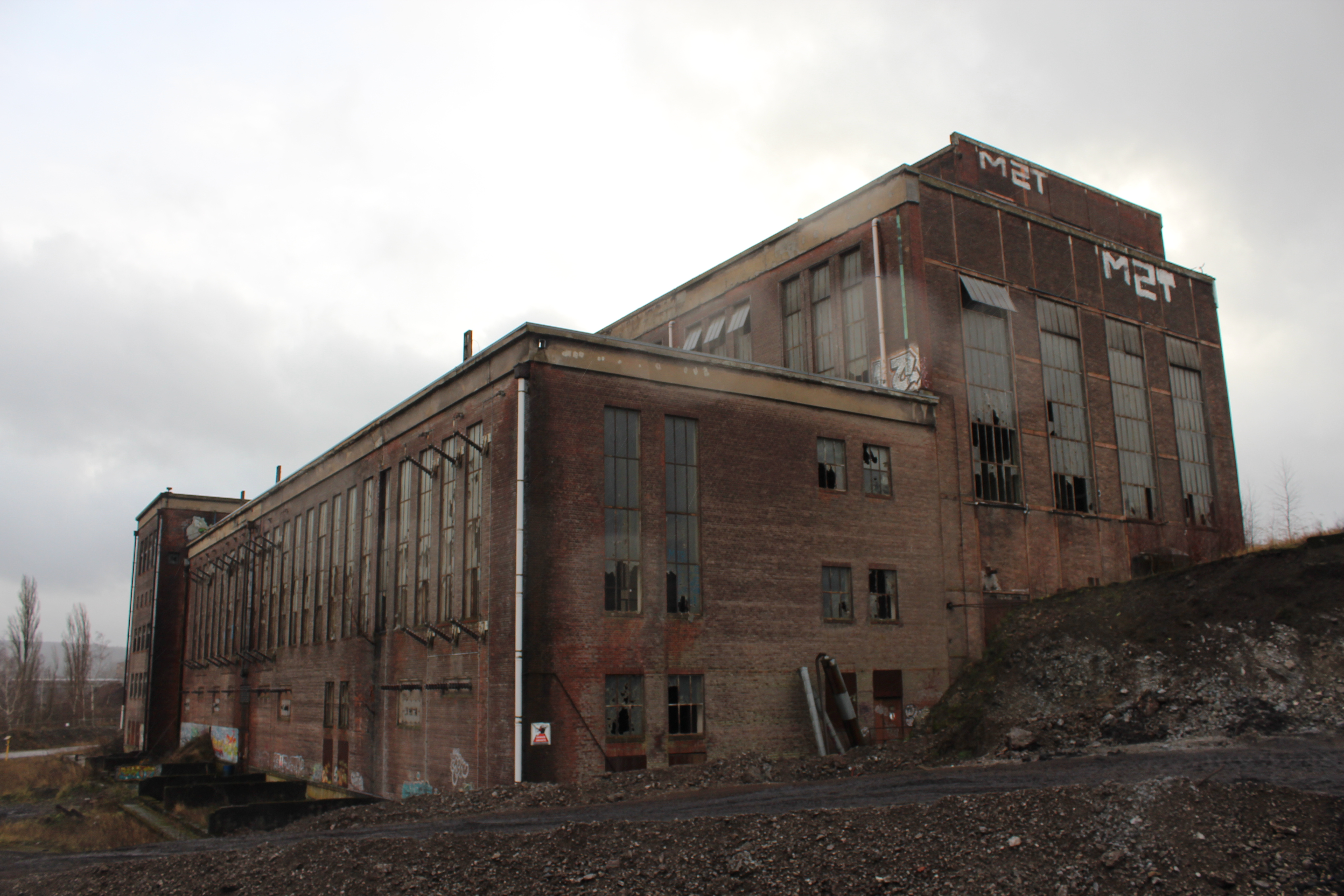 The gas turbine hall of former steel company Arbed, at the Terres Rouges site in Esch-sur-Alzette, Luxembourg (built 1953, dismantled 2015-16). It used the gas from the nearby blast furnaces of Arbed Terres-Rouges and Arbed Belval to produce electricity. With the stop of the last furnace, the turbine plant went out of use. It was dismantled 2015-2016.